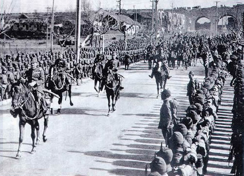 Iwane Matsui (1878-07-27 - 1948-12-23) rides into Nanjing. Source: The Memorial Hall of the Victims in Nanjing Massacre by Japanese Invaders. Image qualifies under fair use as no new photo may be produced for the Nanking Massacre. Copyright is claimed by The Memorial Hall of the Victims in Nanjing Massacre by Japanese Invaders.